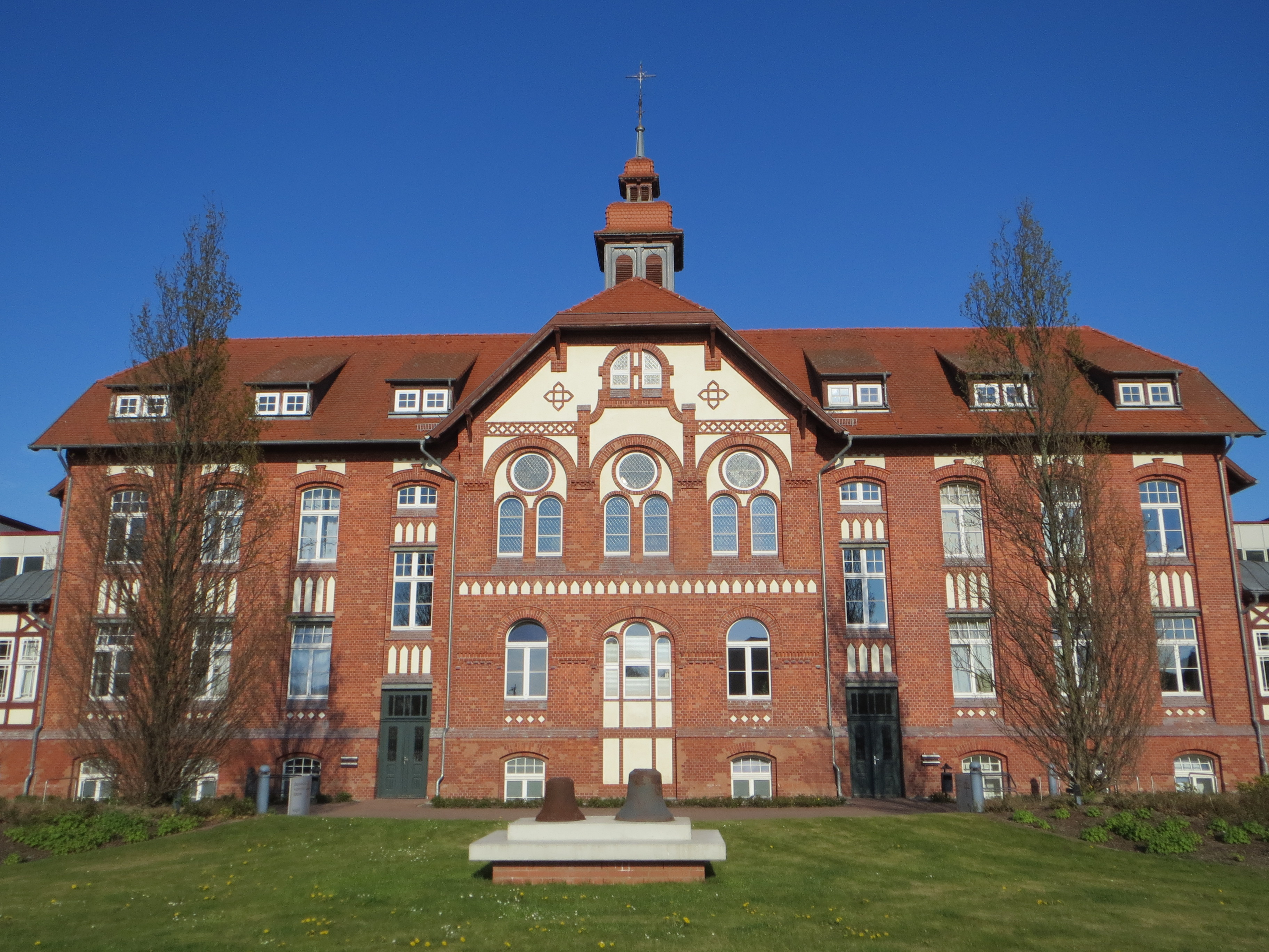 Johanna- Odebrecht-Stiftung in Greifswald